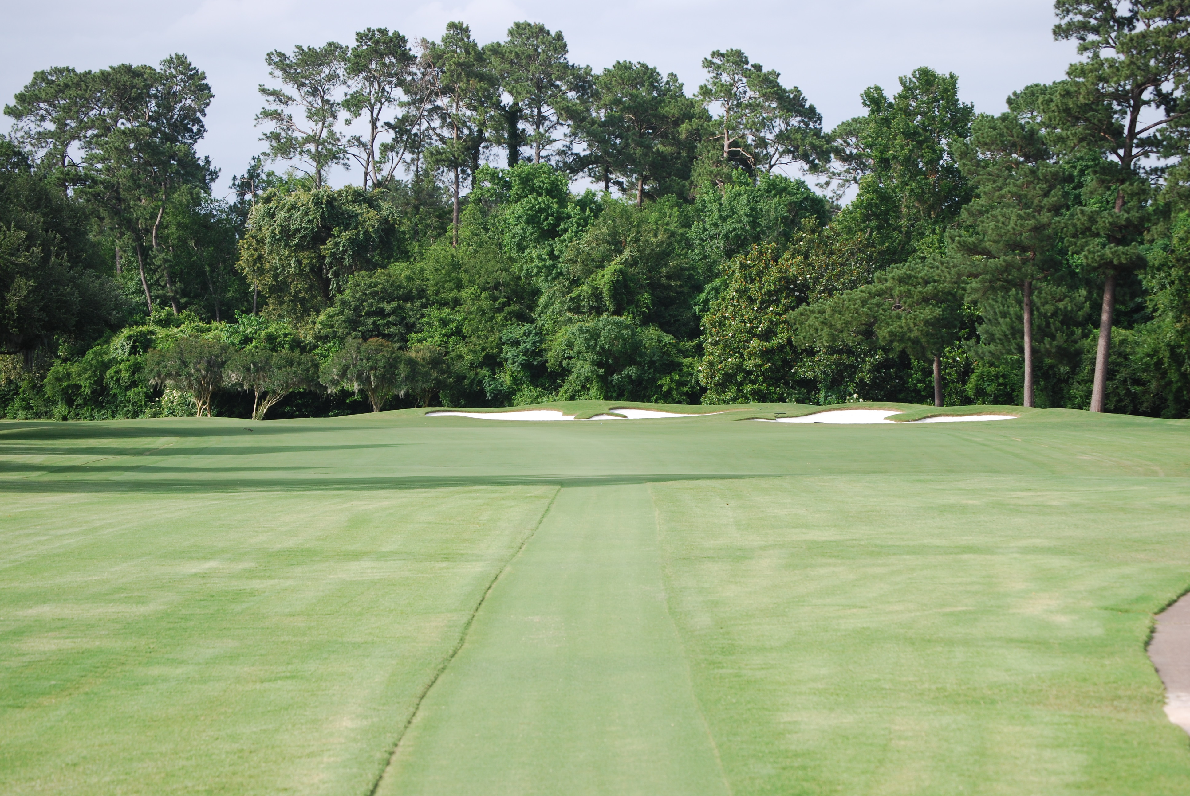 The teeshot on the first hole of the Cypress Creek course